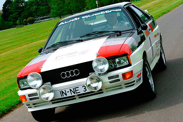 first Audi Quattro Group 4 Rallye algarve